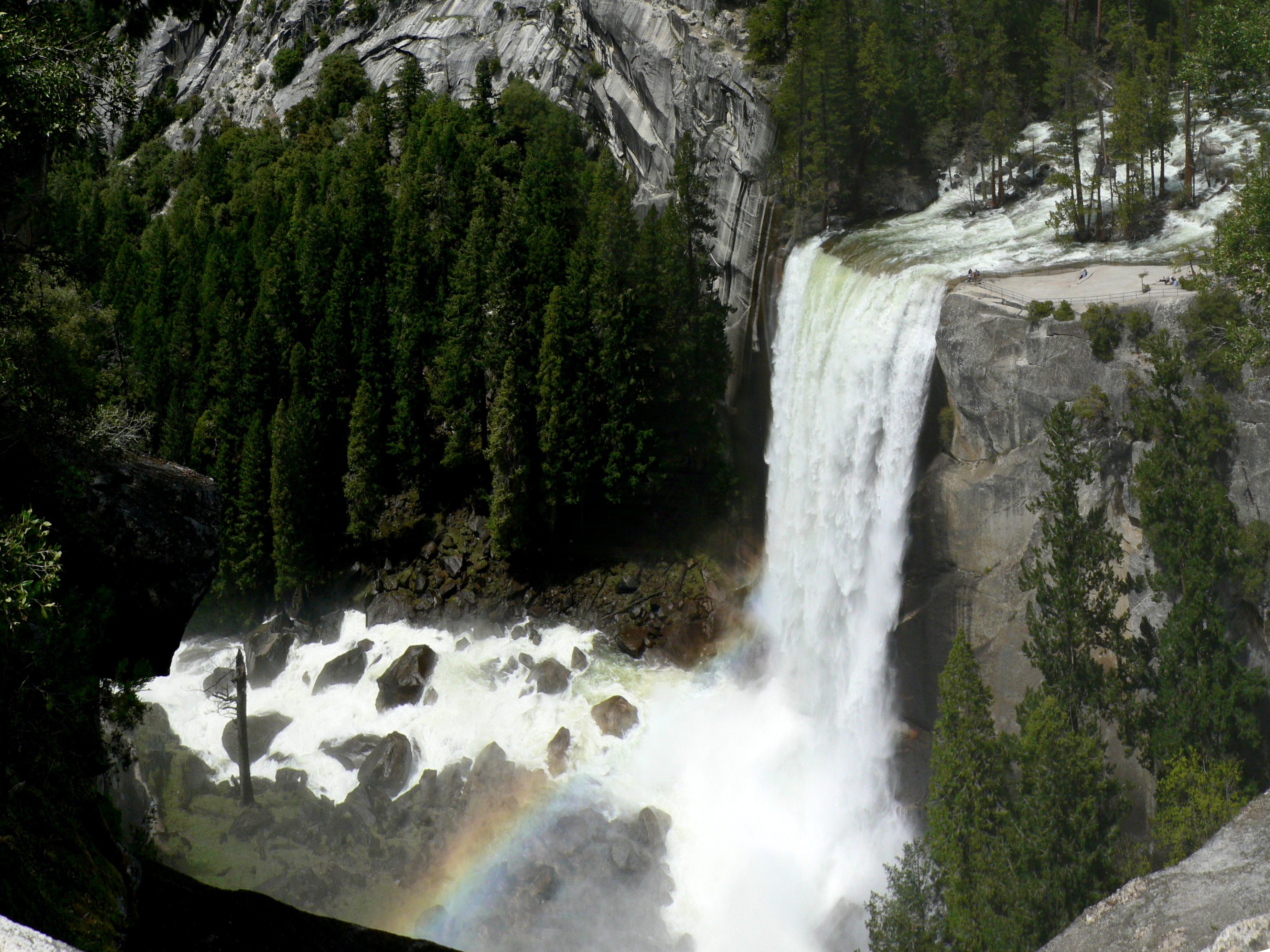 Vernal Fall with plunge pool, hikers and barrier; conifers to the right of the fall are Calocedrus decurrens